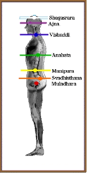 Diagram of the location of chakras as described by some writers on the subject. (Not everybody agrees in regard to all details).